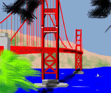 The Golden Gate Bridge, drawn using Tux Paint by William J. Kendrick, January 12, 2005. Based on a photo by Philip Greenspun ([1]).